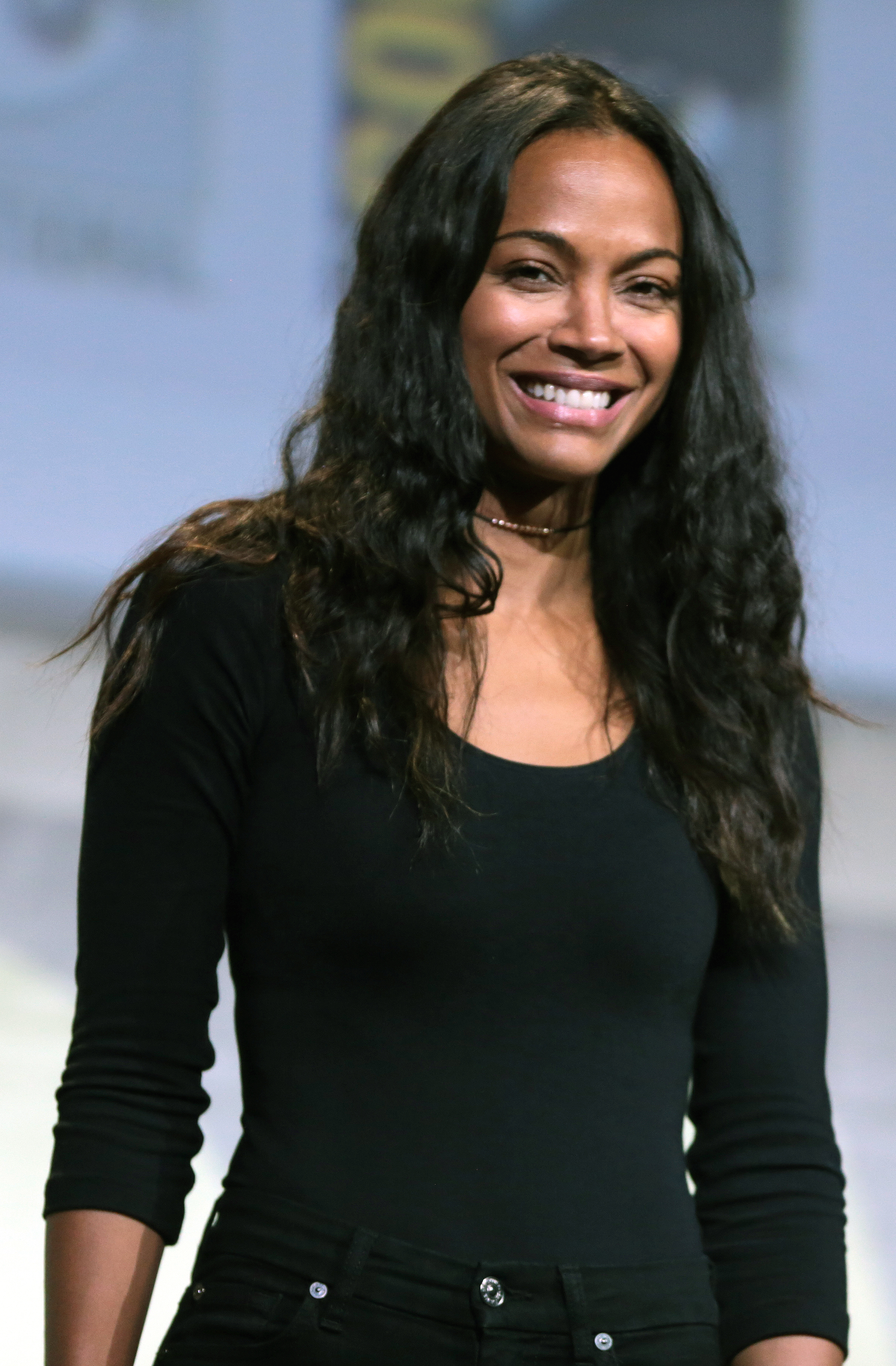 Zoe Saldana speaking at the 2016 San Diego Comic-Con International in San Diego, California.